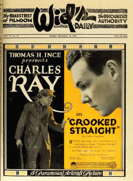 Ad with Charles Ray in the American film Crooked Straight (1919), directed by Jerome Storm.